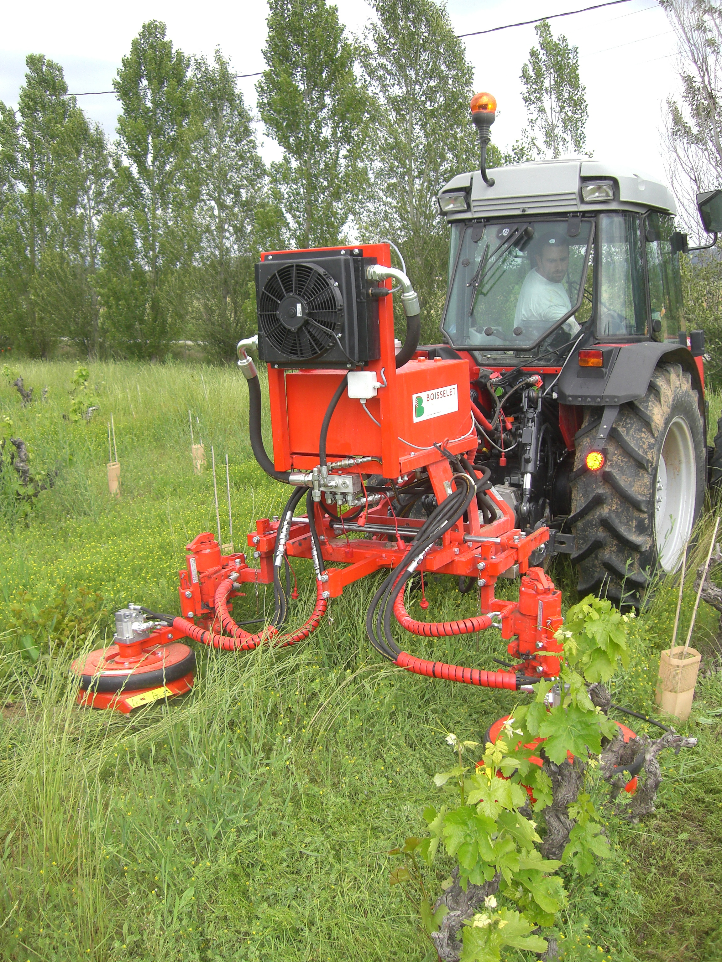 Inter-Vine Mower "Boisselet"